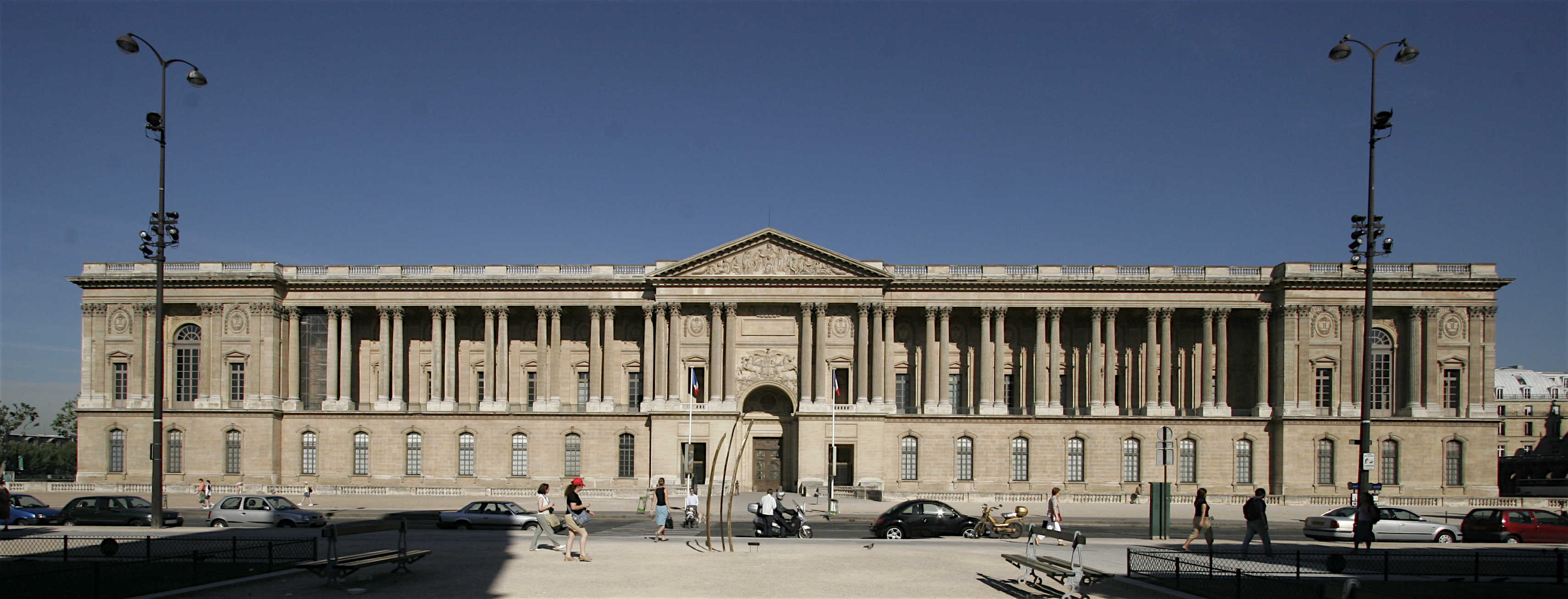 The eastern facade of the Louvre is called Perrault's Colonnade, after the architect who designed it, and faces the Church of Saint-Germain l'Auxerrois (not shown).